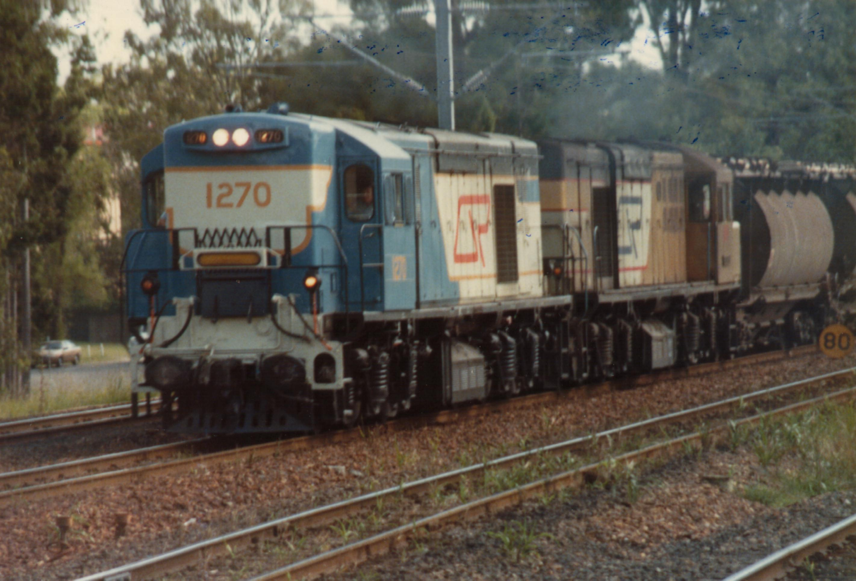 Queensland Rail 1270 Class locomotives 1270 and 1281 (Century) approach Auchenflower Station on 29 November 1985. Photo by “Luke Cossins”.